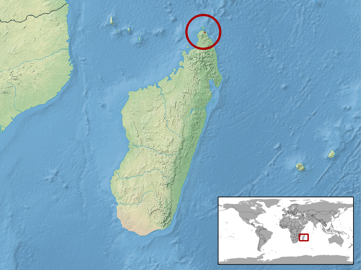 geographic distribution of Paroedura lohatsara (Native: Madagascar)